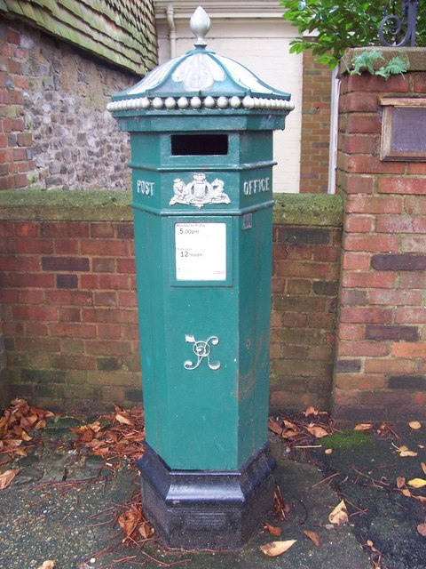 Penfold post box, Haslemere, Surrey. A plaque by the post box reads "This type of postbox was designed by JOHN WORNHAM PENFOLD and was introduced in 1866. He was a resident of Haslemere 1828-1909 and lived at Courts Hill House (now Penfolds), Sandrock Corner, Lower Street, Haslemere, Surrey" This particular box is a 1989 replica, not original.